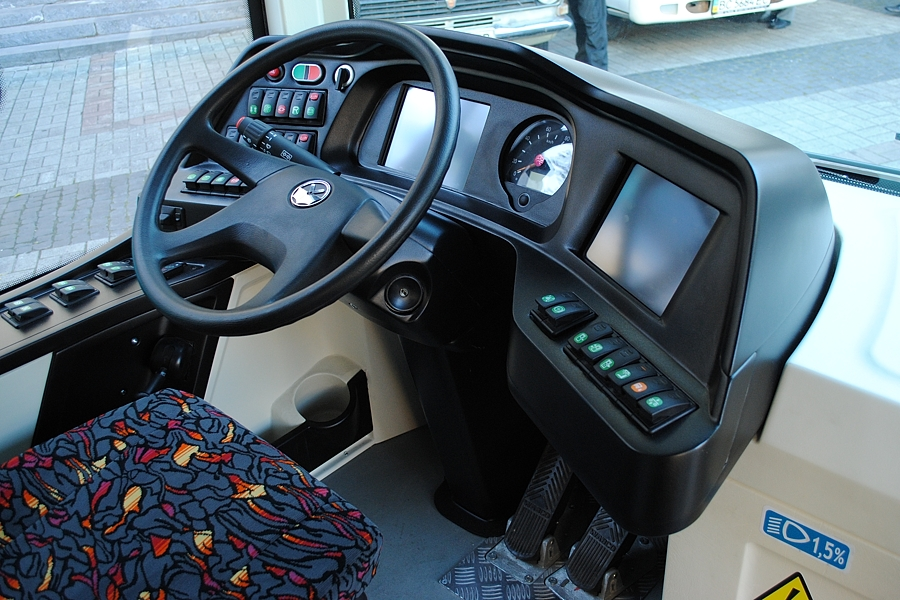 Electron T19101 trolleybus on Lvivsky Tovarovyrobnyk Expo.